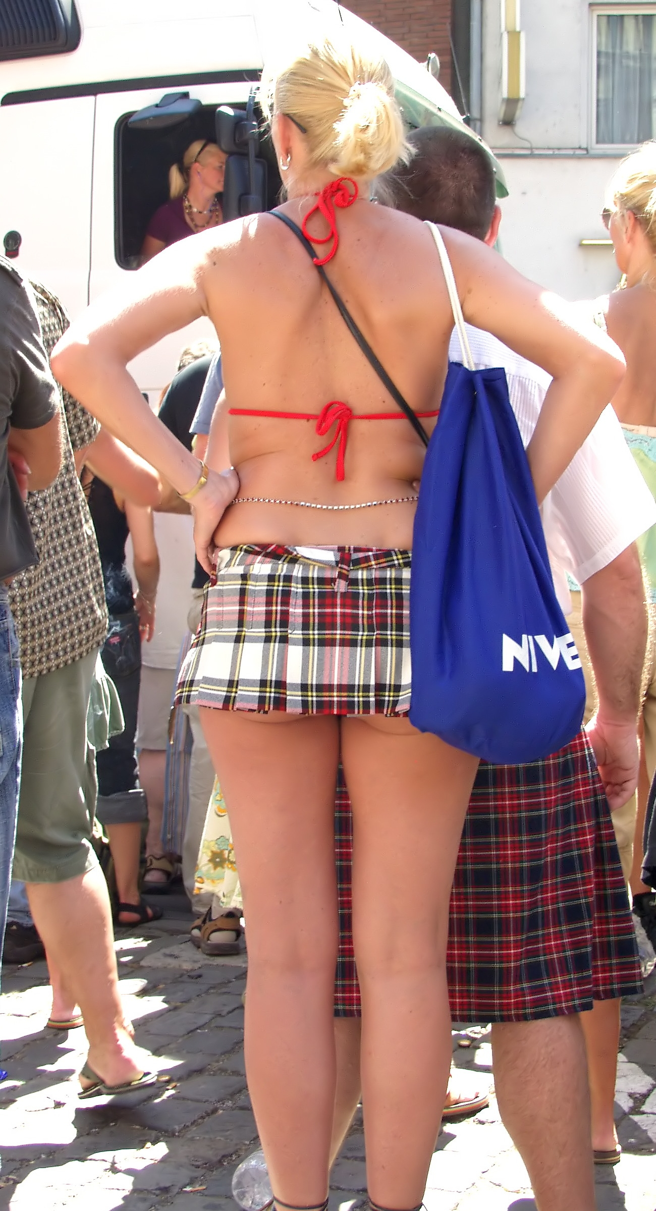 Members of the Christopher Street Day demonstration - ColognePride 2006